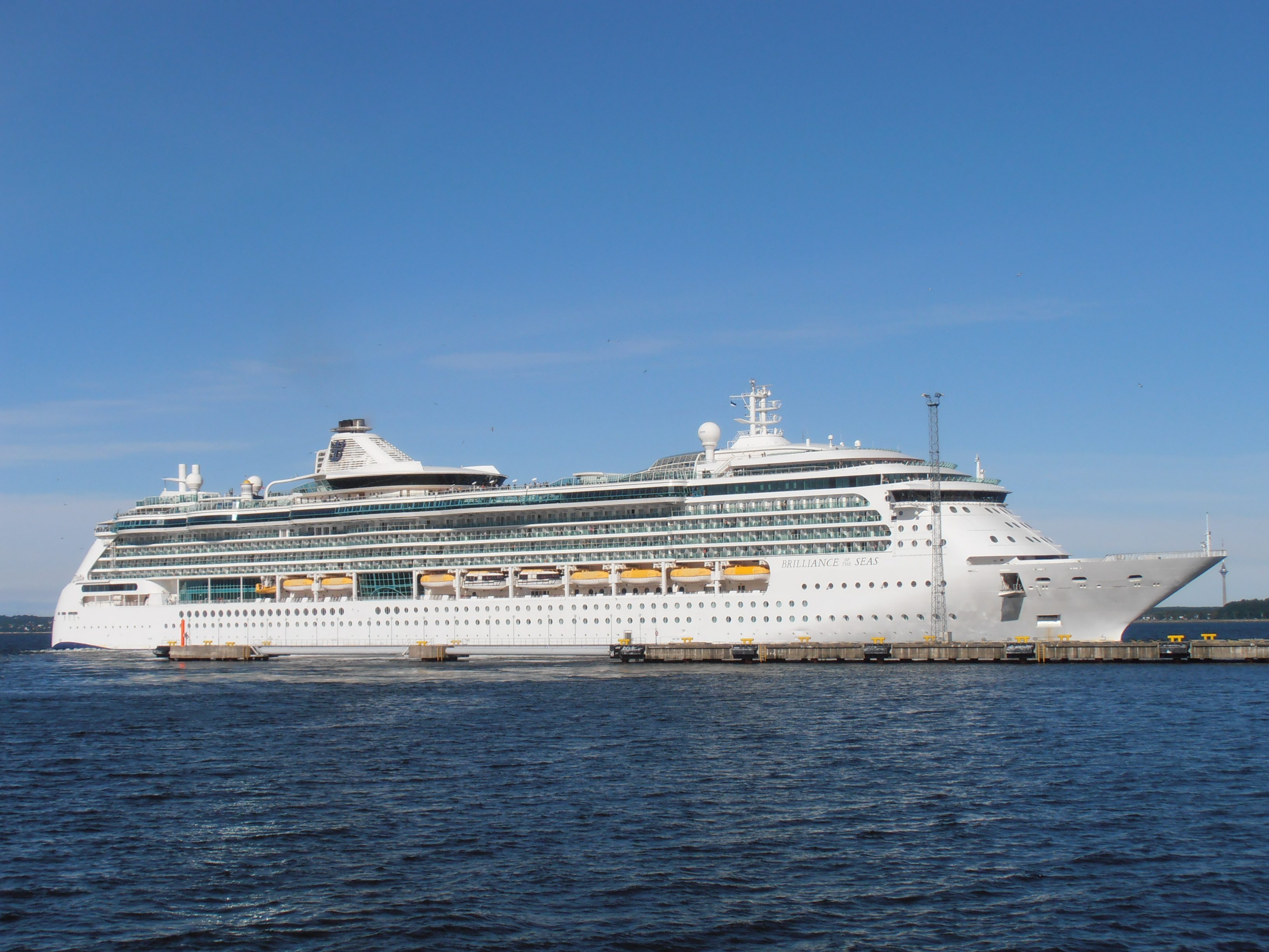 Brilliance of the Seas in Tallinn 9 August 2012